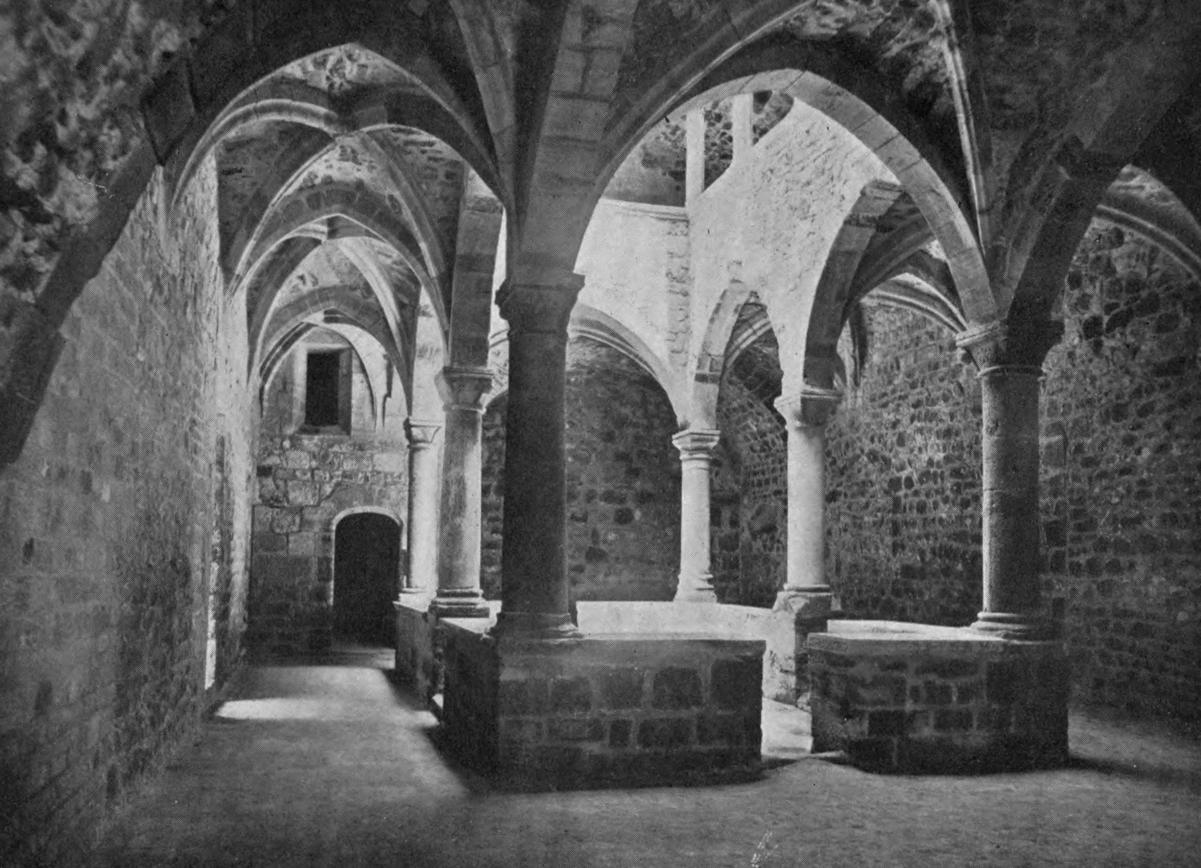 Image from a scanned version of the book "A Book of the Riviera" by Sabine Baring-Gould from Image has been cropped and sepia tone removed.